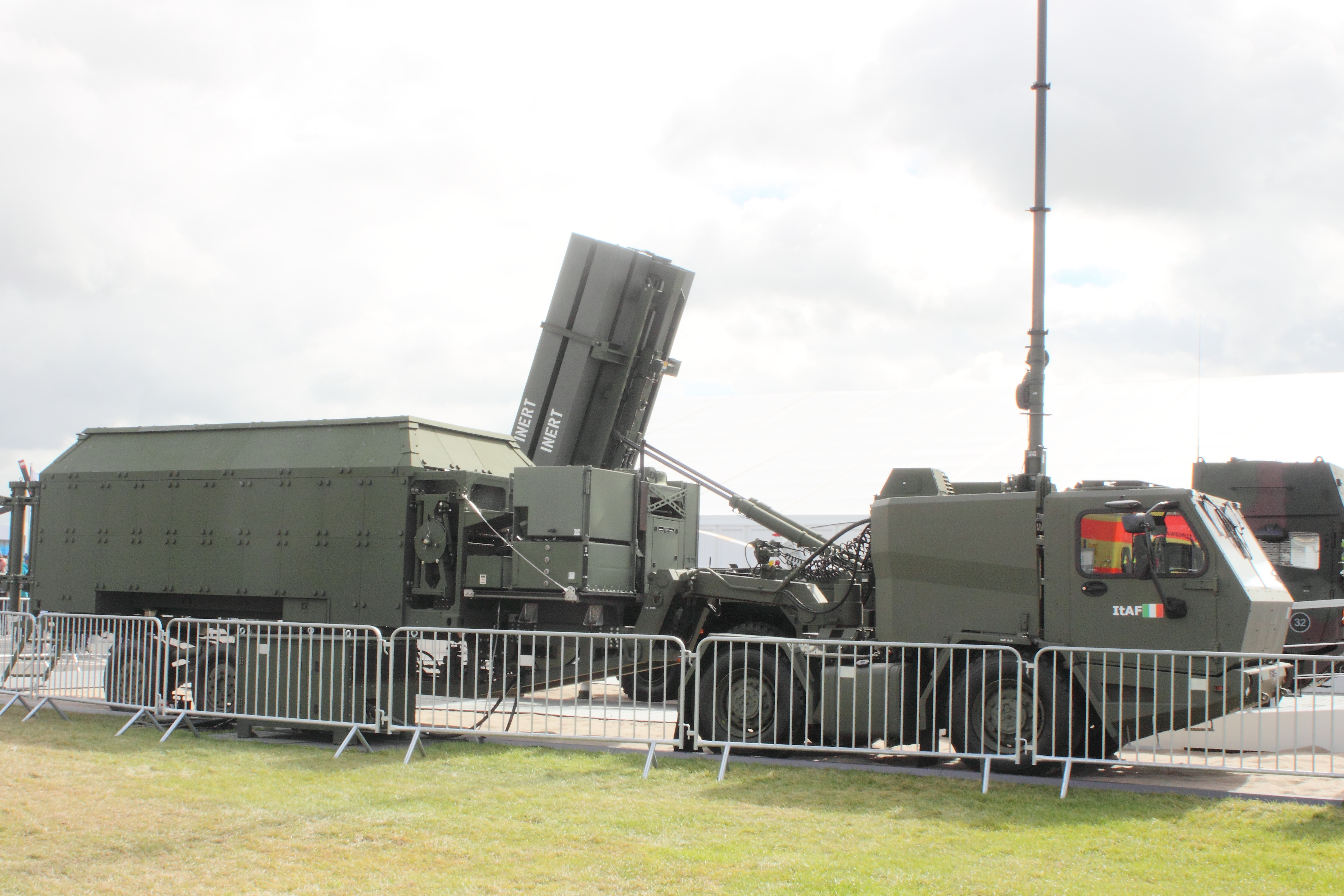 ILA Berlin Air Show 2012; MBD.A MEADS: Tactical Operations Center (TOC) on Italian Primover; Missile Busters